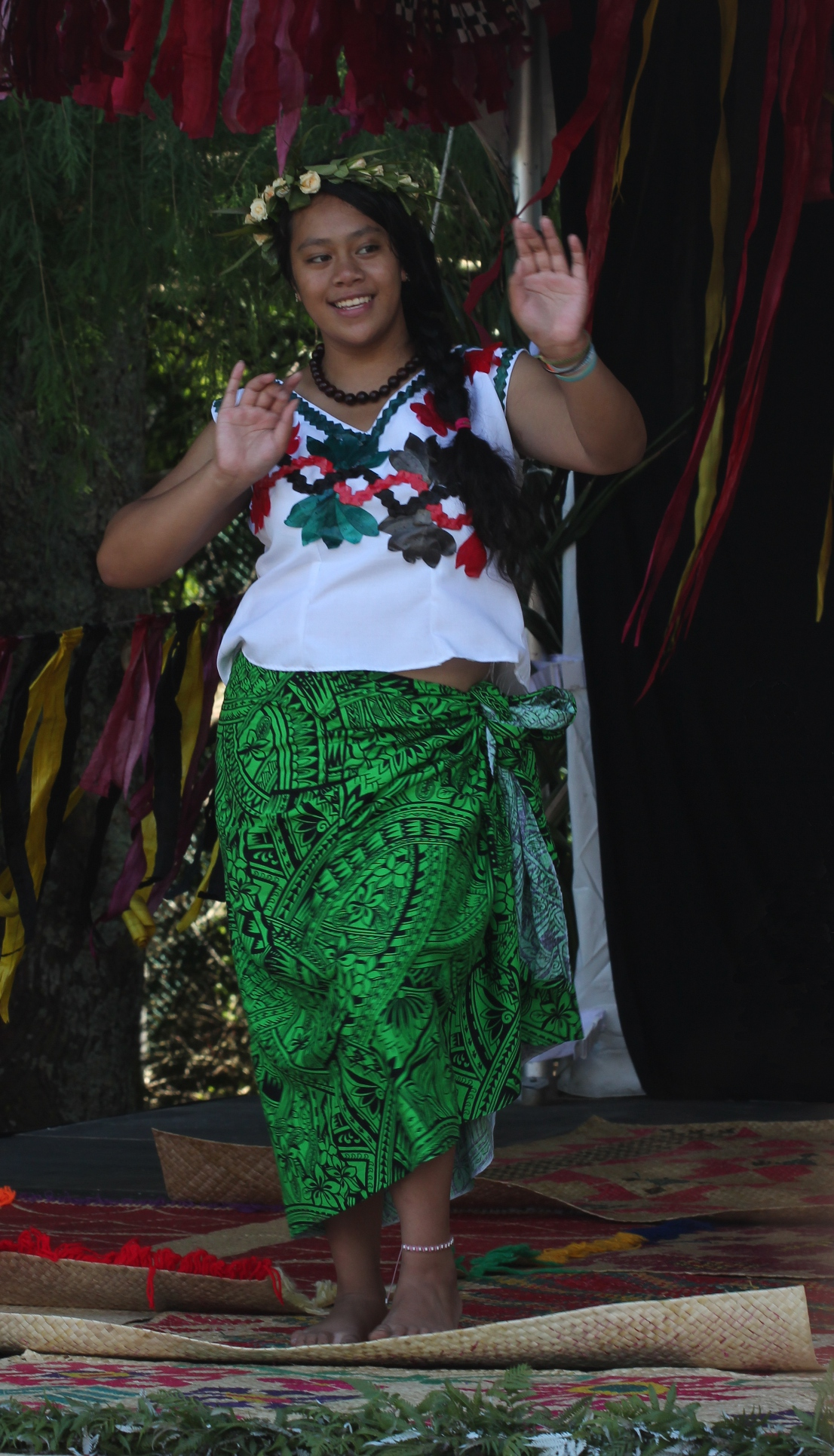 A young woman, a proud Tuvaluan girl dances on the Tuvalu stage at the 2011 Pasifika festival, Auckland, New Zealand.